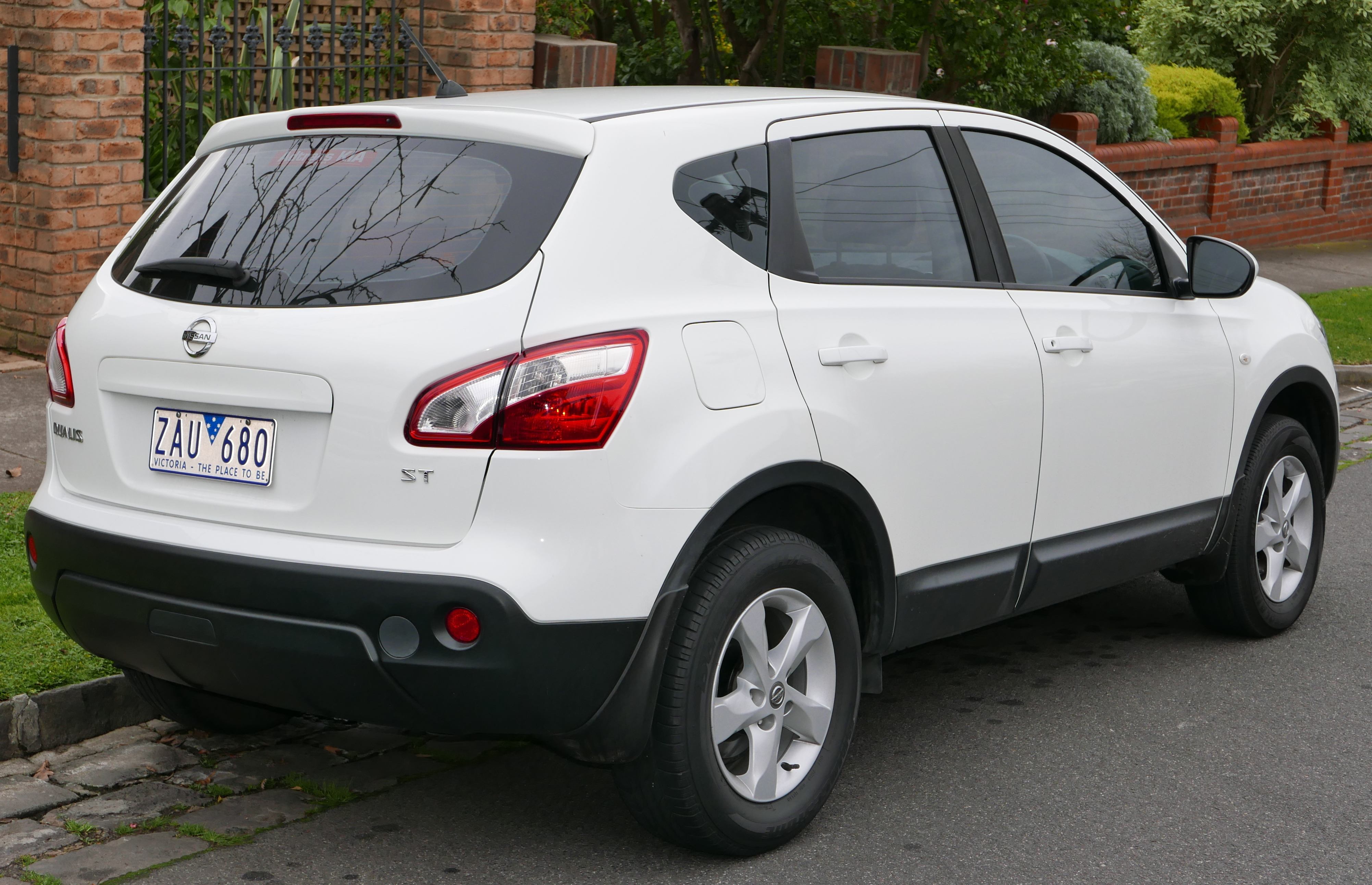 2010 Nissan Dualis (J10 Series II MY10) ST wagon. Photographed in Kew, Victoria, Australia. Vehicle registration enquiry resultsJurisdictionVictoriaRegistrationZAU680Chassis codeSJNFBAJ10A2105256Engine codeMR20028443BCompliance date2010-07Year of manufacture2010